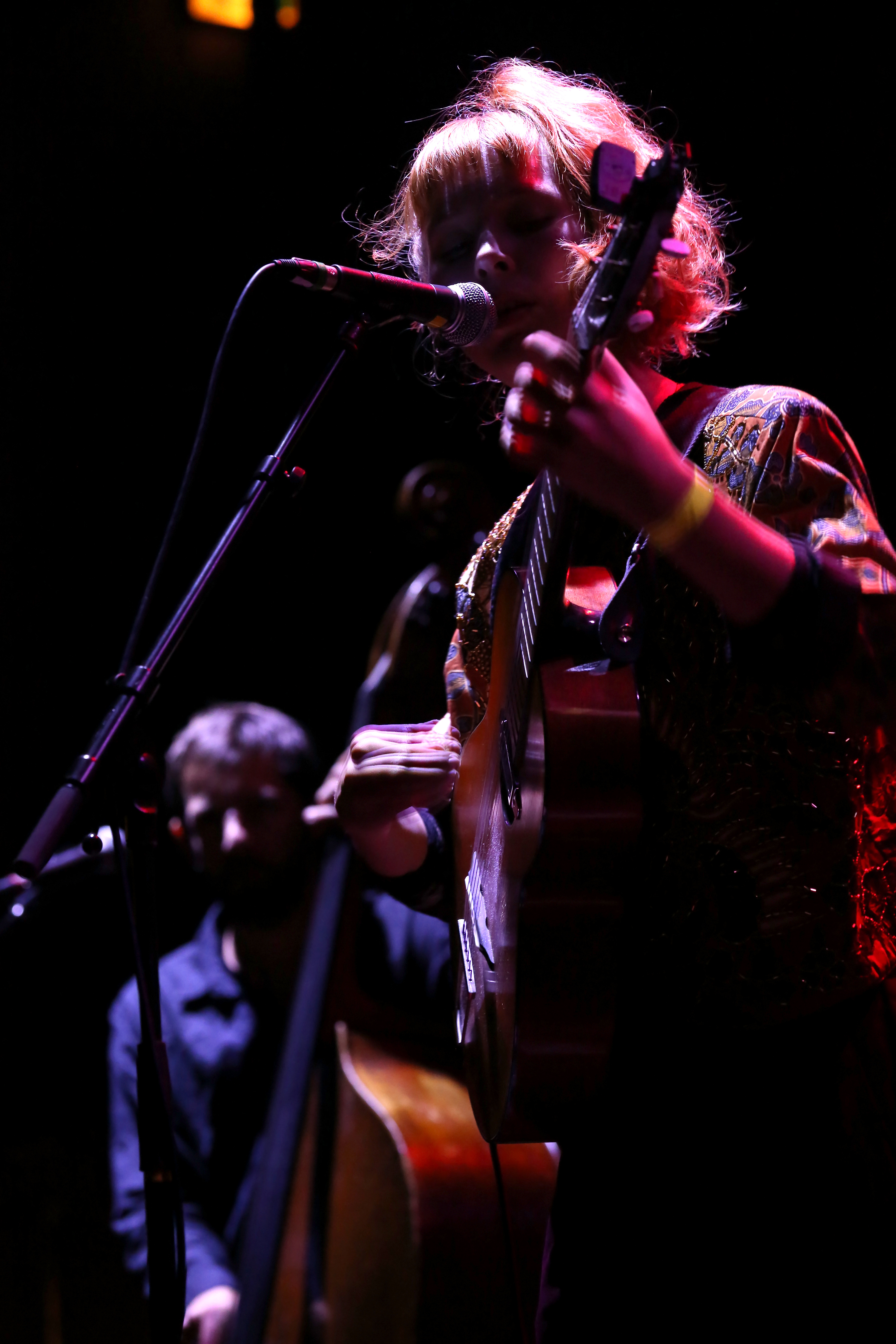 Schmieds Puls, concert at brut during Waves Vienna Music Festival & Conference 2014 in Vienna, Austria.